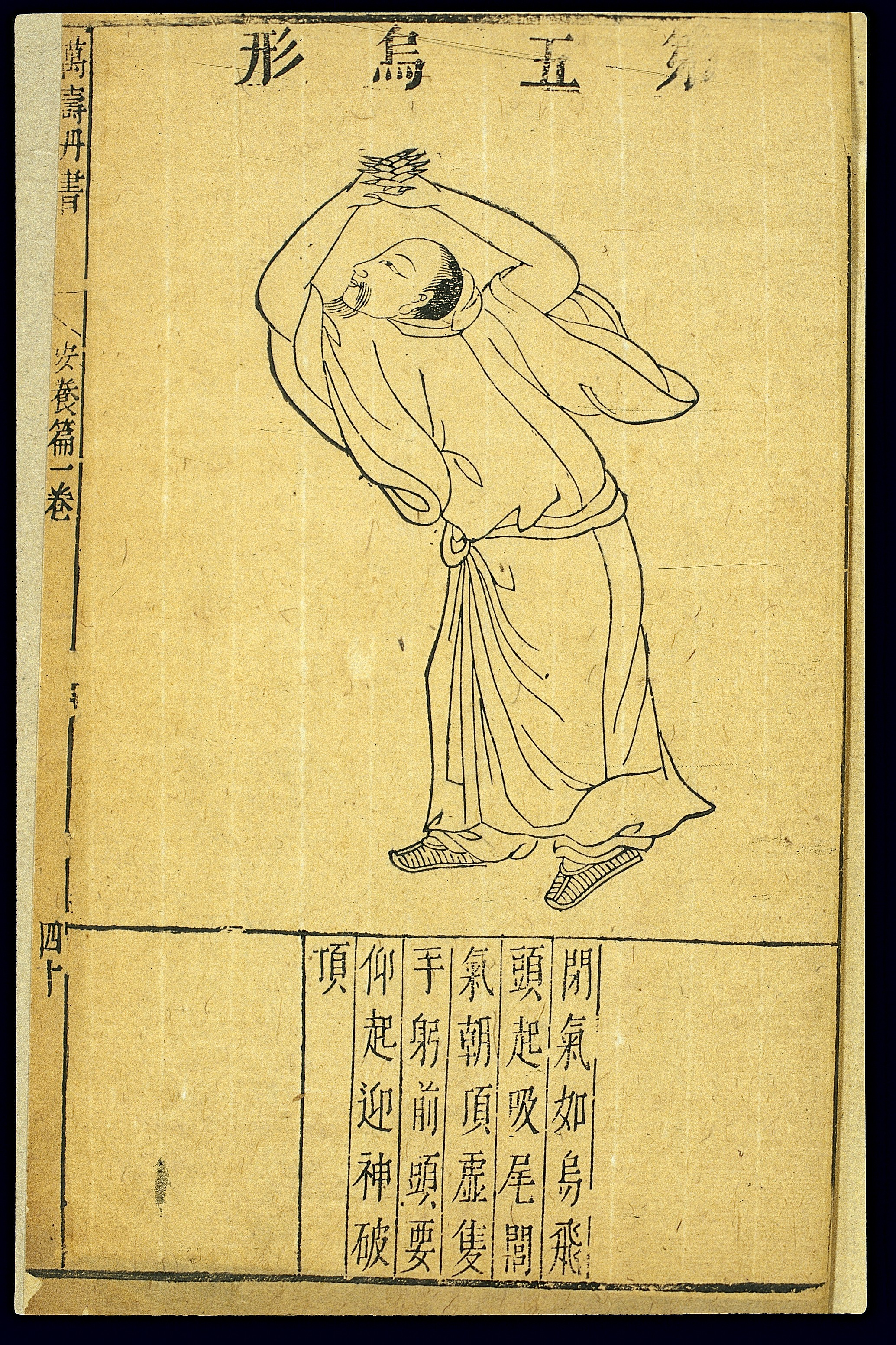 Wanshou danshu(The Cinnabar Book of Longevity) is a 'nourishing life' (yang sheng) text composed in the Ming period (1368-1644) by Gong Juzhong. It records a far more ancient practice known asWu qin xi(Play of the five creatures). This is a form of therapeutic gymnastics based on the mimesis of animal movements. Already described inHua Tuo Zhuan(The Book of Hua Tuo [?-203 CE])Hou han shu(History of the Later Han Dynasty), it probably represents a pre-Han popular tradition. This illustration depicts the fifth of the 'plays of the five creatures' -niao xi, the play of the bird. It is performed as follows: One holds one's breath, lowers one's head, clenches one's fists and adopts a stance like a tiger asserting its dominance, holding one's hands as though carrying a large amount of gold. Still without releasing the breath, one straightens up very gradually, then takes breath into the abdomen and allows the spiritual breath/Qi to rise and then redescend, so that a thunderous sound seems to come from the abdomen. This is done about seven or eight times. This sequence of movements is supposed to regulate the flow of Qi in the channels. Wellcome Images Keywords: Medicine, Chinese Traditional; Exercise Therapy; Exercise Movement Techniques